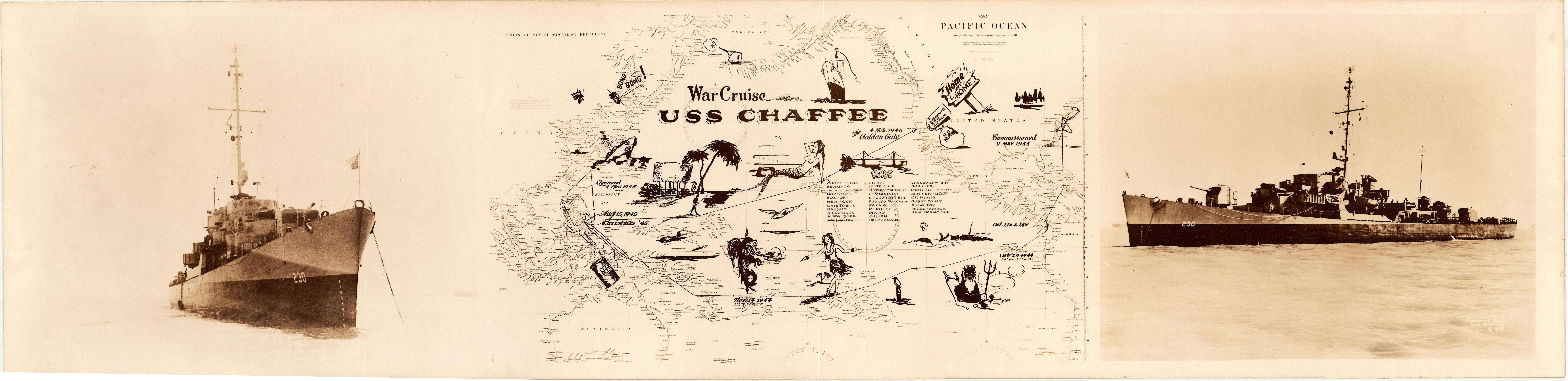 Presentation photograph of two views of the USS Chaffee and a chart of her war cruise and ports of call. This belonged to Henry C. Beck who was an ensign serving as an engineering officer during the Chaffee's naval service.